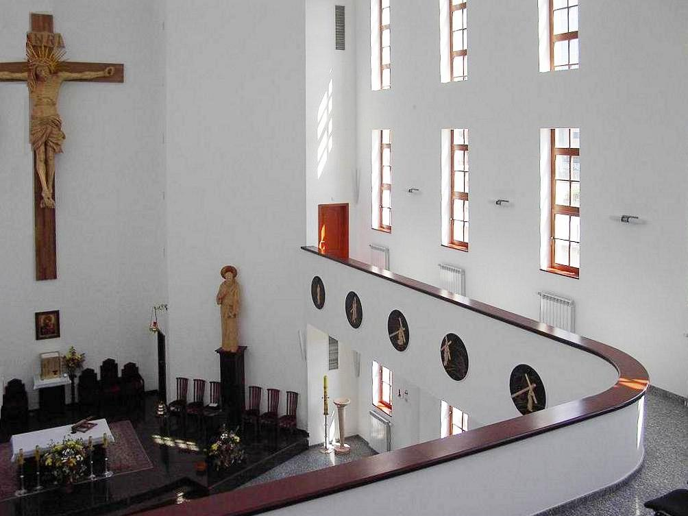 Interior of St. Joseph Cathedral in Sofia, Bulgaria